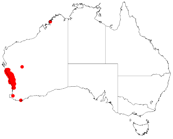 Scaevola phlebopetala occurrence data downloaded from Australasian Virtual Herbarium on 12 May 2019